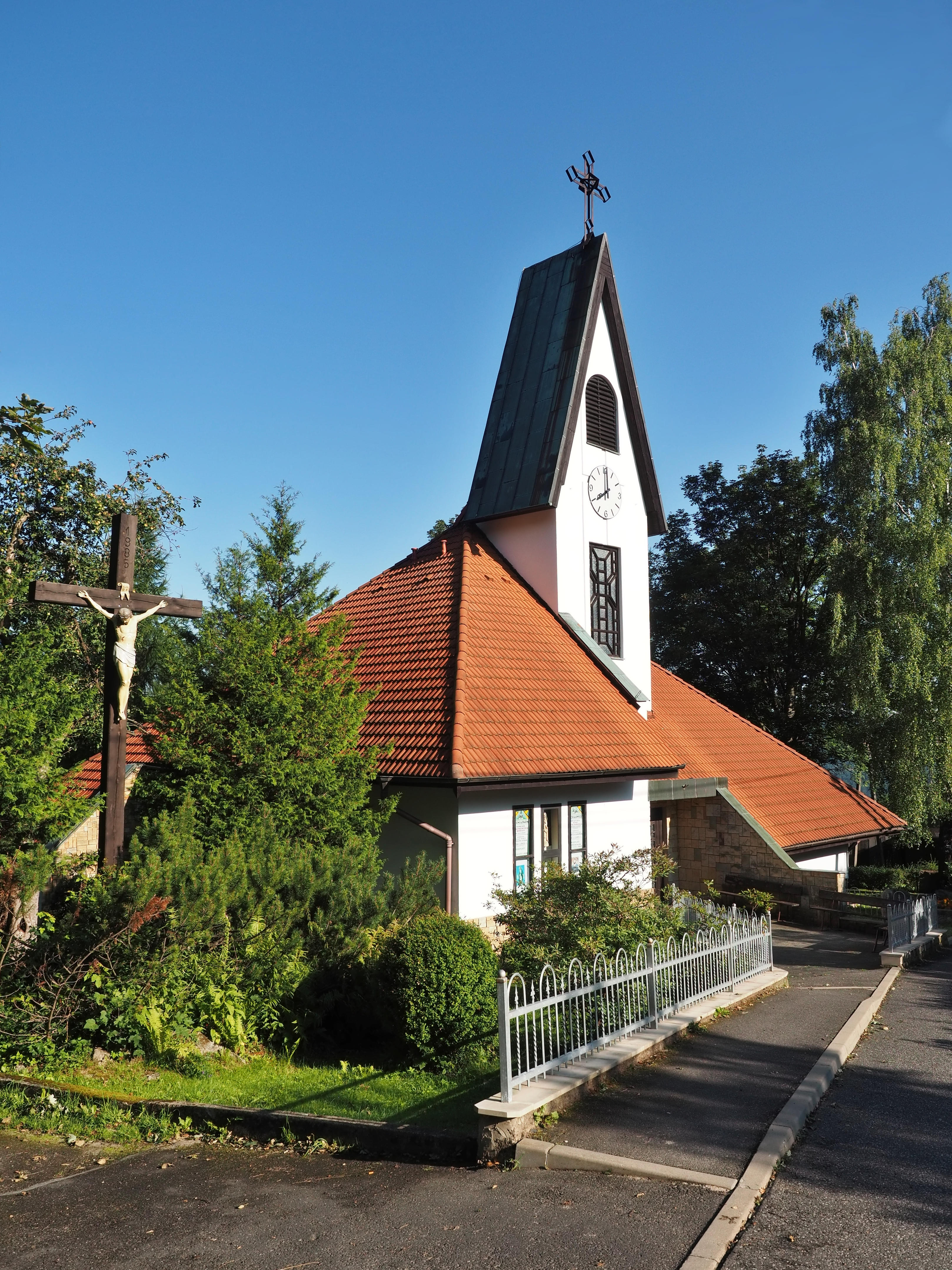 Catholic church "Mary, Mother of the Church" in Michałowice